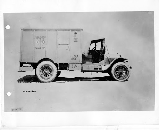 SCR-124 Radio Truck, white 1 1/2 ton